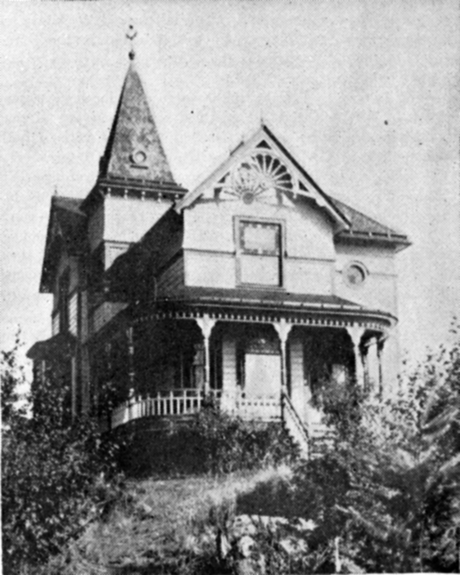 Image from The Souvenir of Western Women